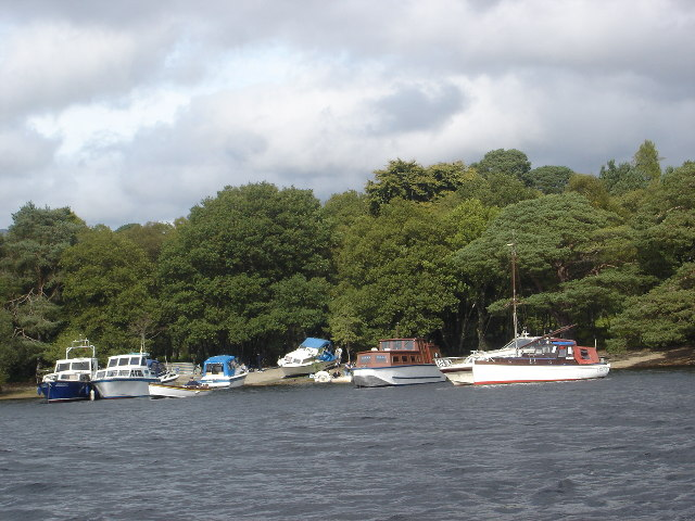 Boats moored in bay on west side of Inchconnachan, Loch Lomond, Scotland. A bit quieter towards the end of September but a popular spot for a picnic on one of the many islands at the south end of Loch Lomond